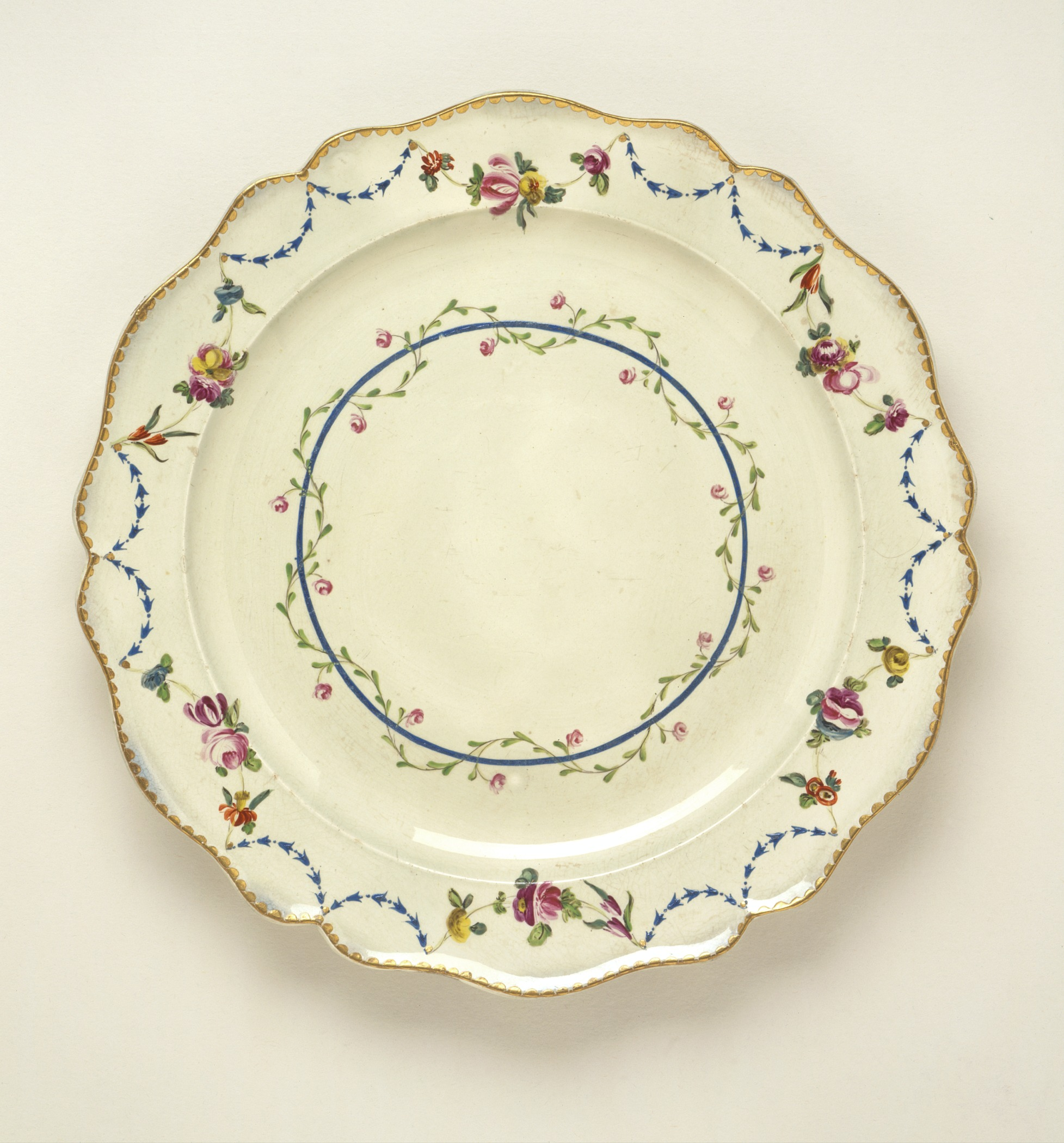 England, circa 1780 Furnishings; Serviceware Earthenware (pearlware) William Randolph Hearst Collection (49.13.8) Decorative Arts and Design